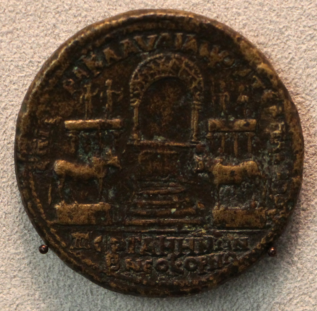 Ancient Roman coins in the Altes Museum Berlin